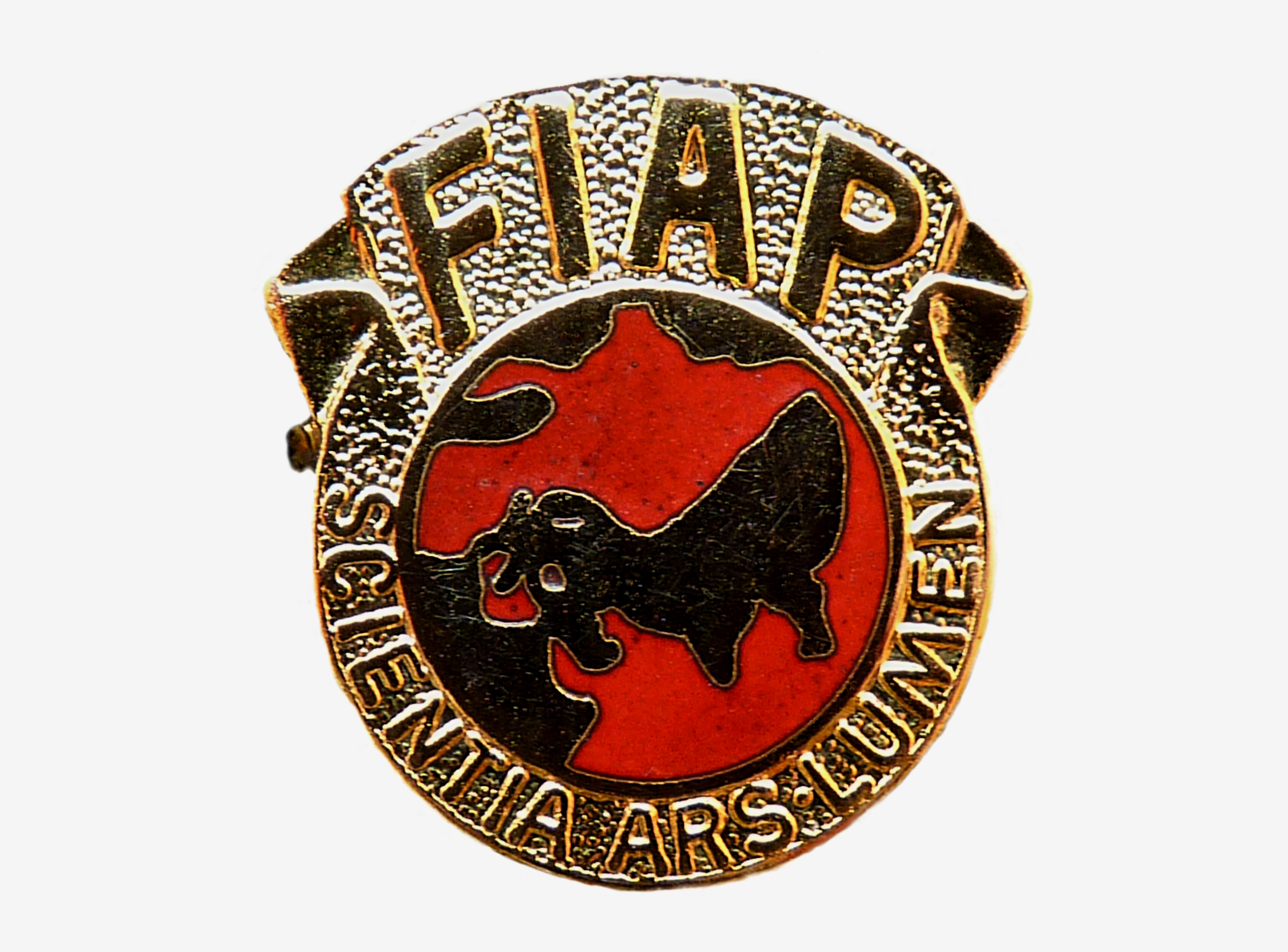 Badge EFIAP. Badge given by the FIAP (Fédération Internationale de l'Art Photographique/International Federation of the Photographic Art) to the photographers who got the title of EFIAP (Excellence de la Fédération Internationale de l'Art Photographique/Excellence of the International Federation of the Photographic Art).